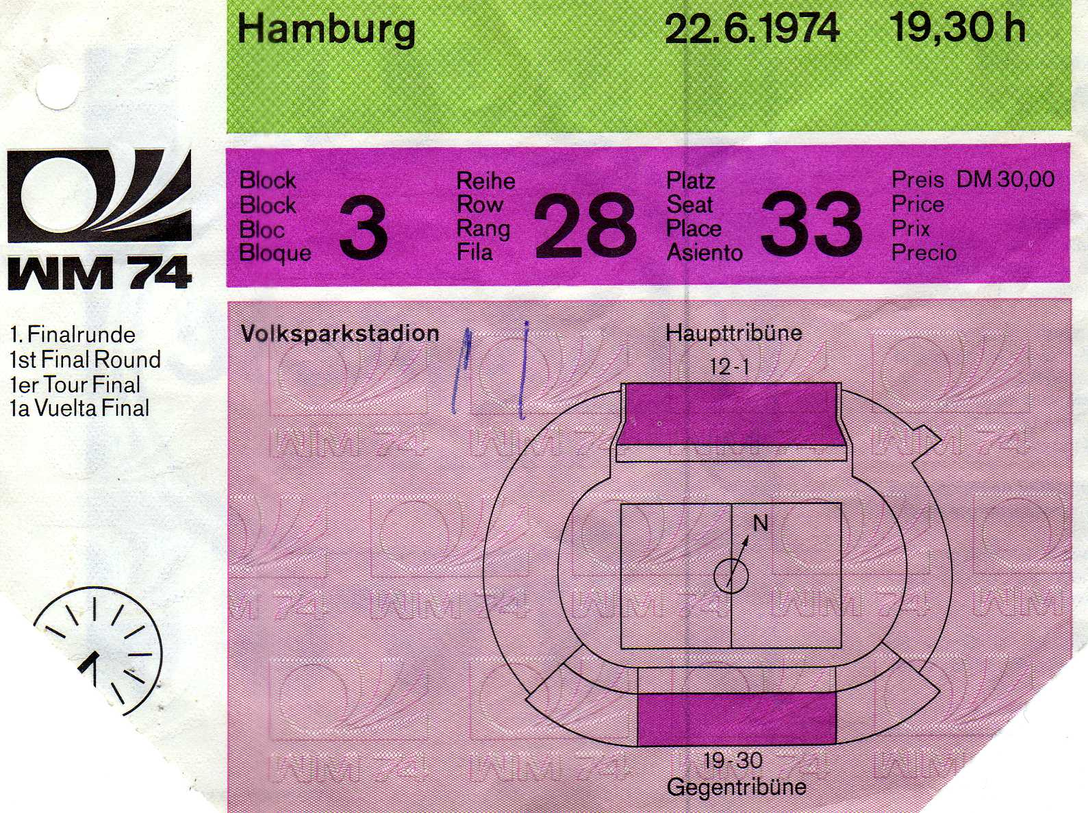 Ticket to the only football international of the FRG against the GDR on the 22nd June, 1974 in Hamburg